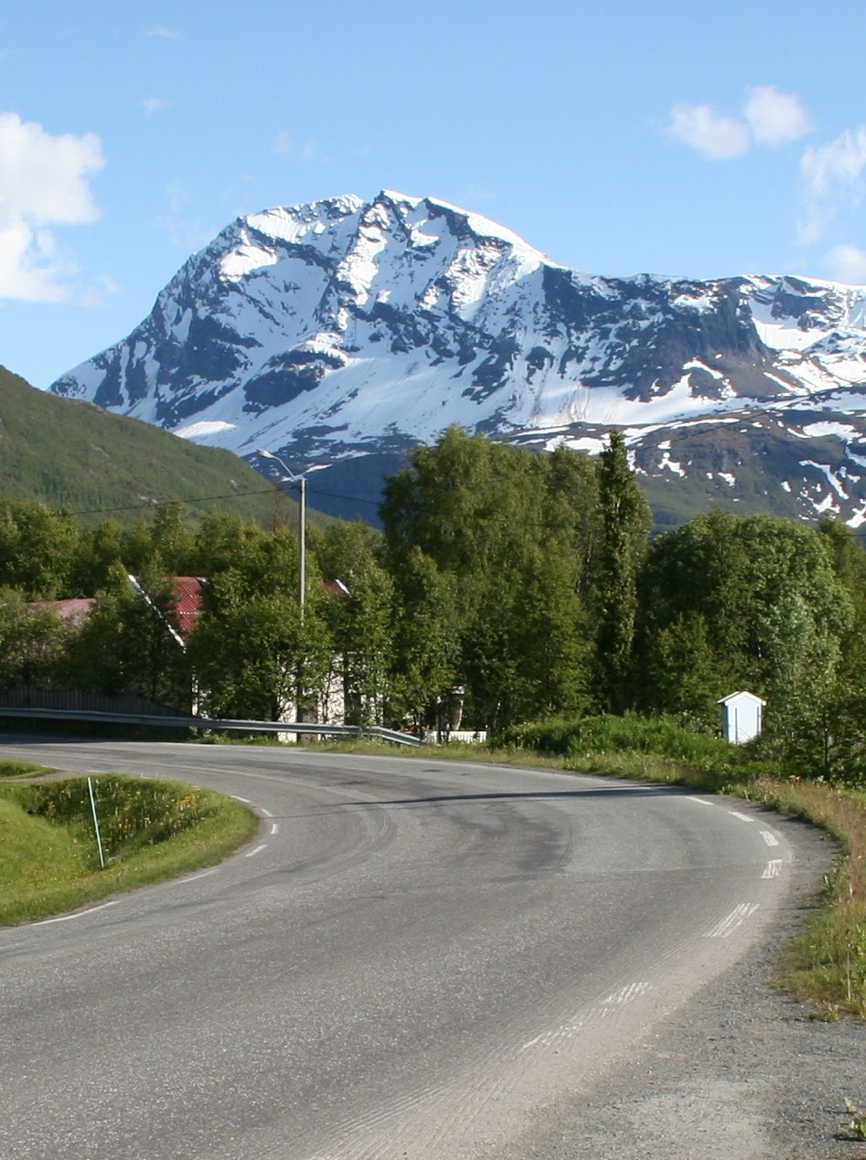 The picture shows the mountain of Spanstinden (1457 m) from Soløy in Lavangen.